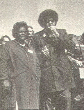 Johnnie Tillmon is on the left; an unknown person is on the right